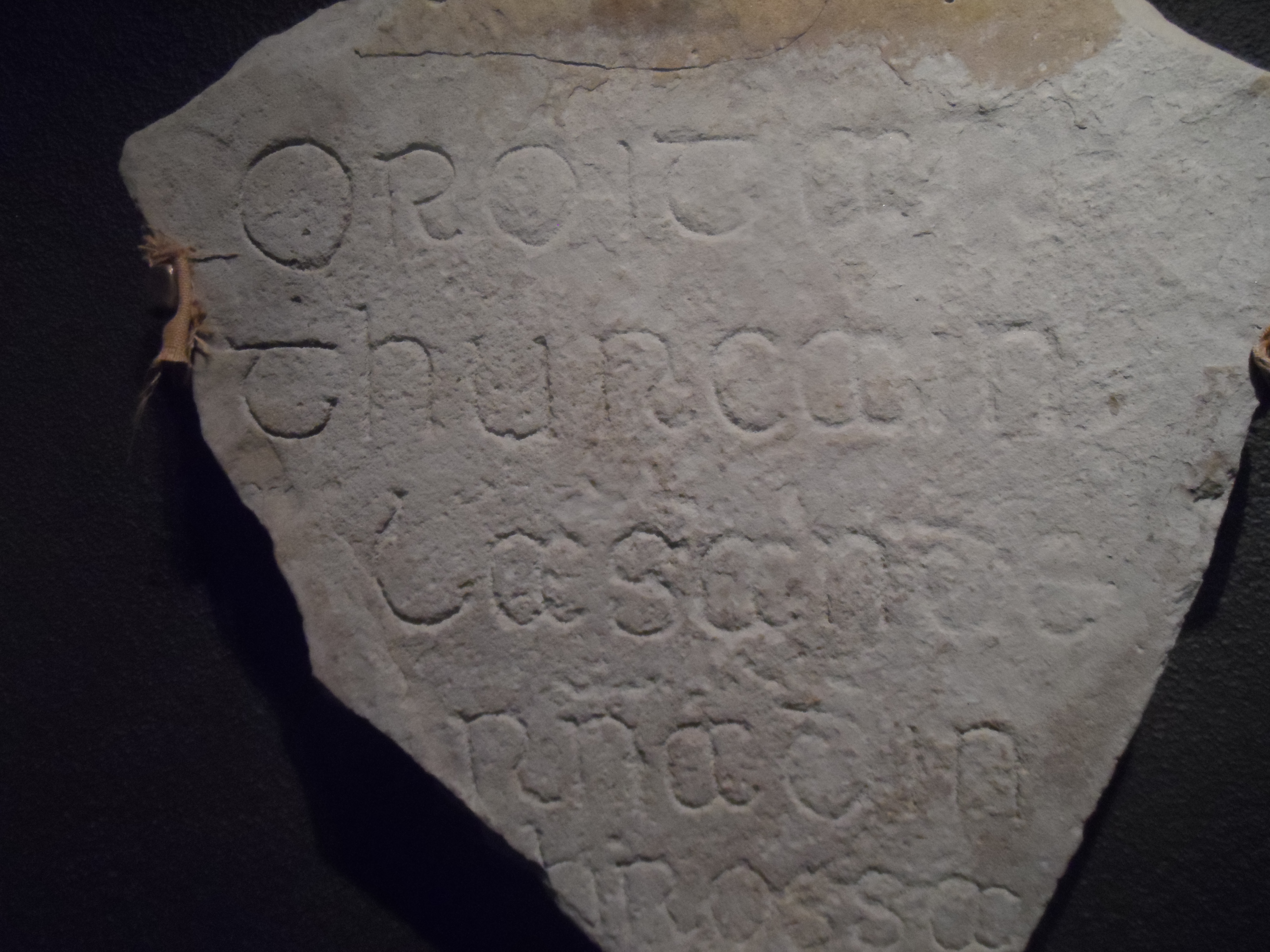 Clonmacnoise